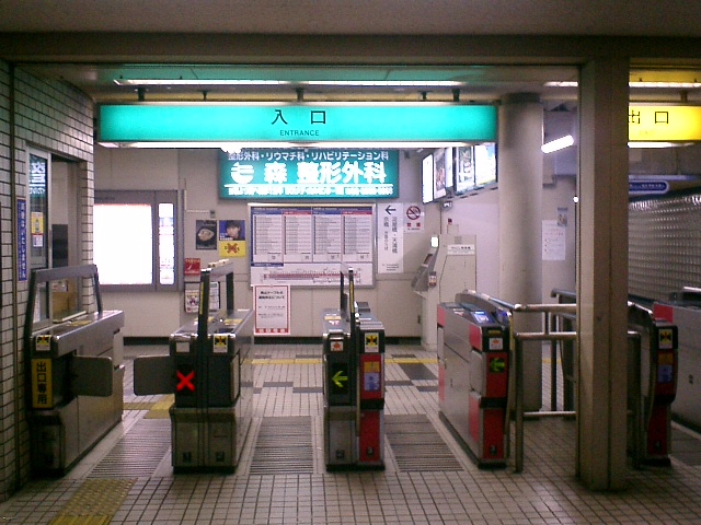 Keihan Doi Station in Moriguchi City